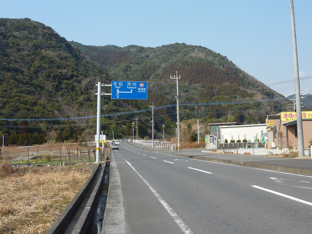 Oita Prefectural Road No.37:Saiki-Kamae Line in Kamae, Saiki City, Oita, Japan